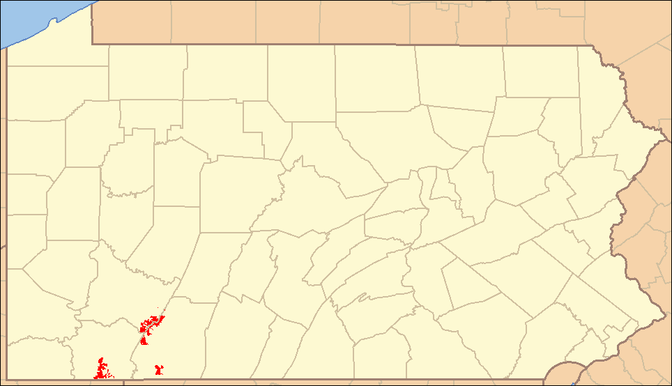 Locator Map of Forbes State Forest, Pennsylvania, United States